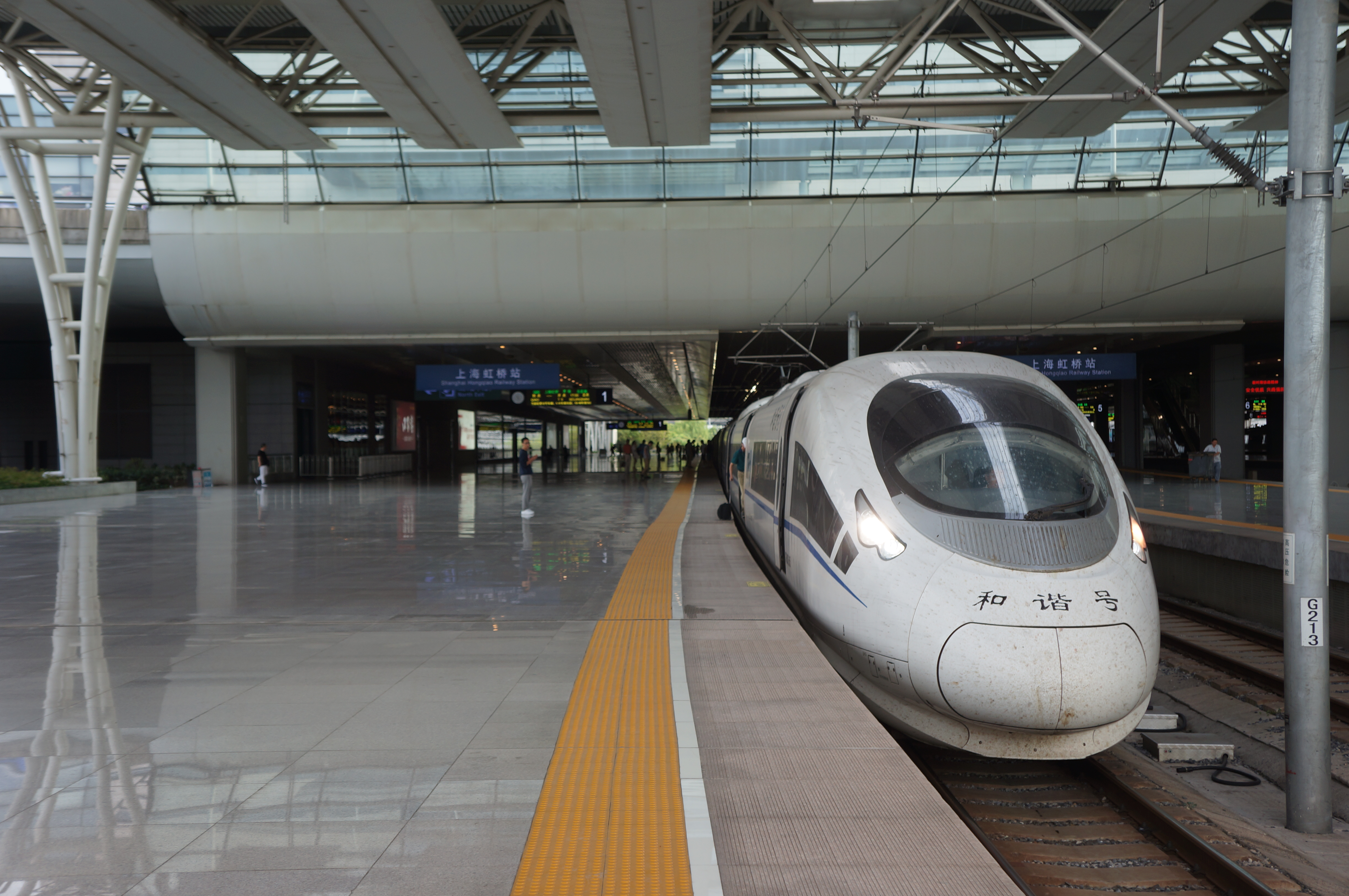 201609 G22 waits for Departure at Shanghai Hongqiao Station